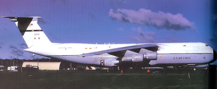 C-5A 69-009 of the 60th MAW, Travis AFB, about 1977